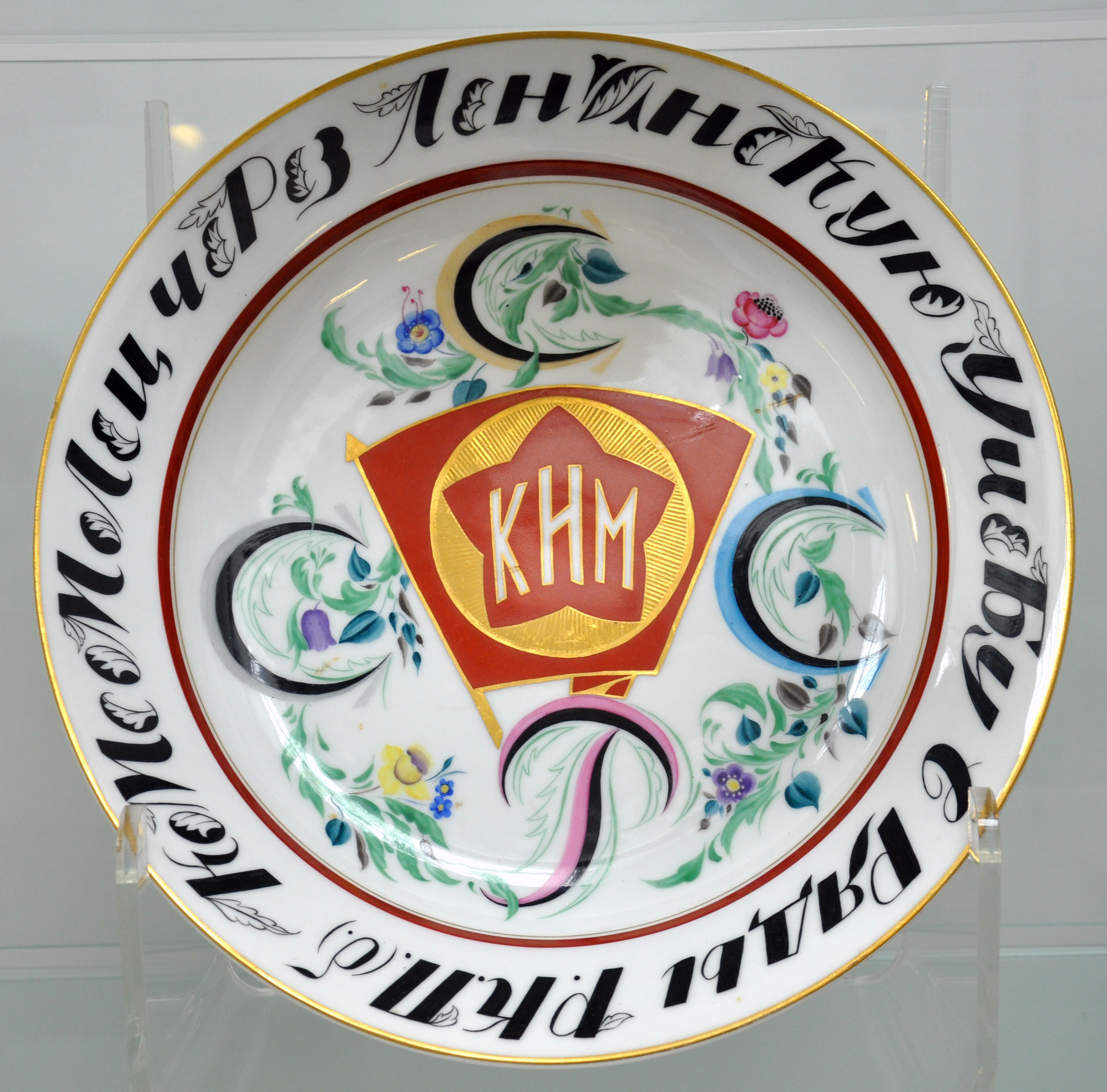 Soviet agitational porcelain. Plate. Lomonosov Porcelain Factory, Leningrad 1925, after a design by Sergei Chekhonin (1878–1936). In the middle — the first Komsomol [Youth Communist League] bage with abbreviation «КИМ» [The Communist International of Youth]. Around it — letters «СССР» [USSR]. Translation of the inscrption: A Komsomolets [Komsomol member], through Lenin's studies into the ranks of the R.C.P.(b.) [Russian Communist party (bolsheviks' )]!